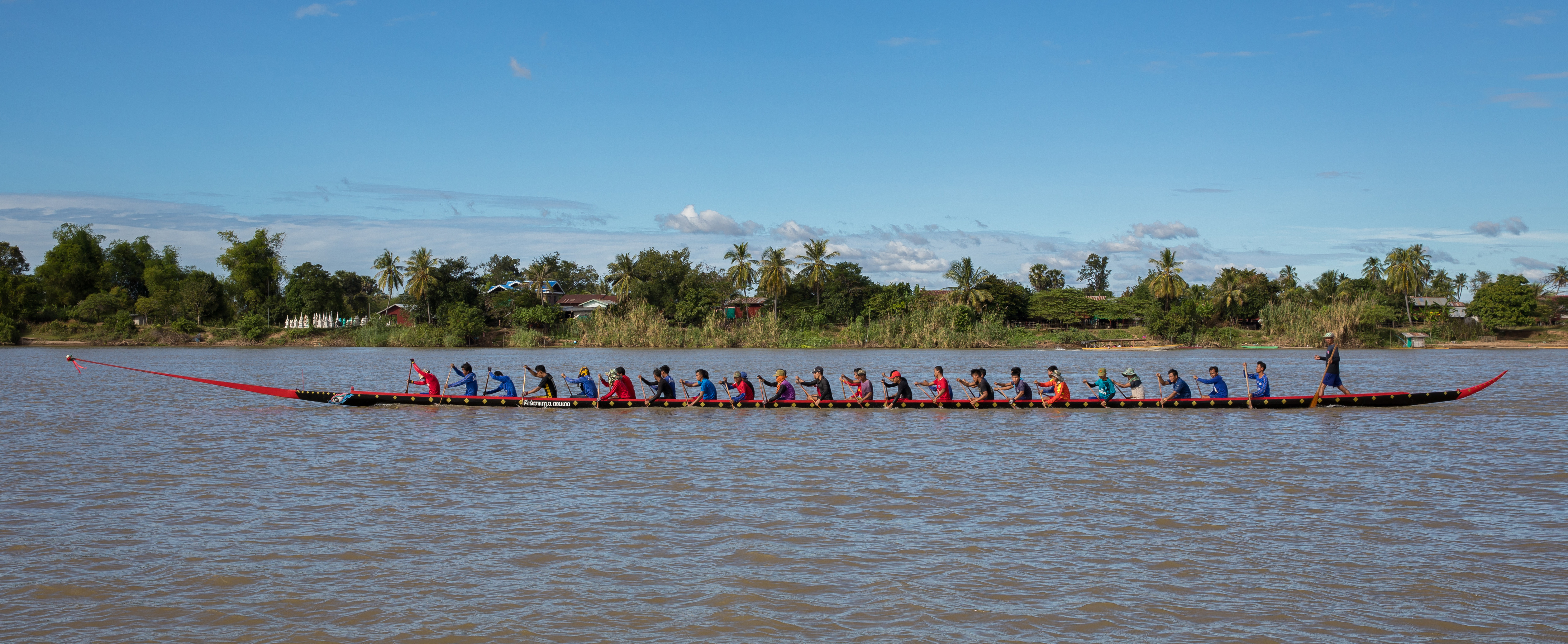 Thirty-five rowers on a long racing pirogue during a training session near the island of Don Som, Si Phan Don, Laos. Photo shot from a boat on the Mekong.